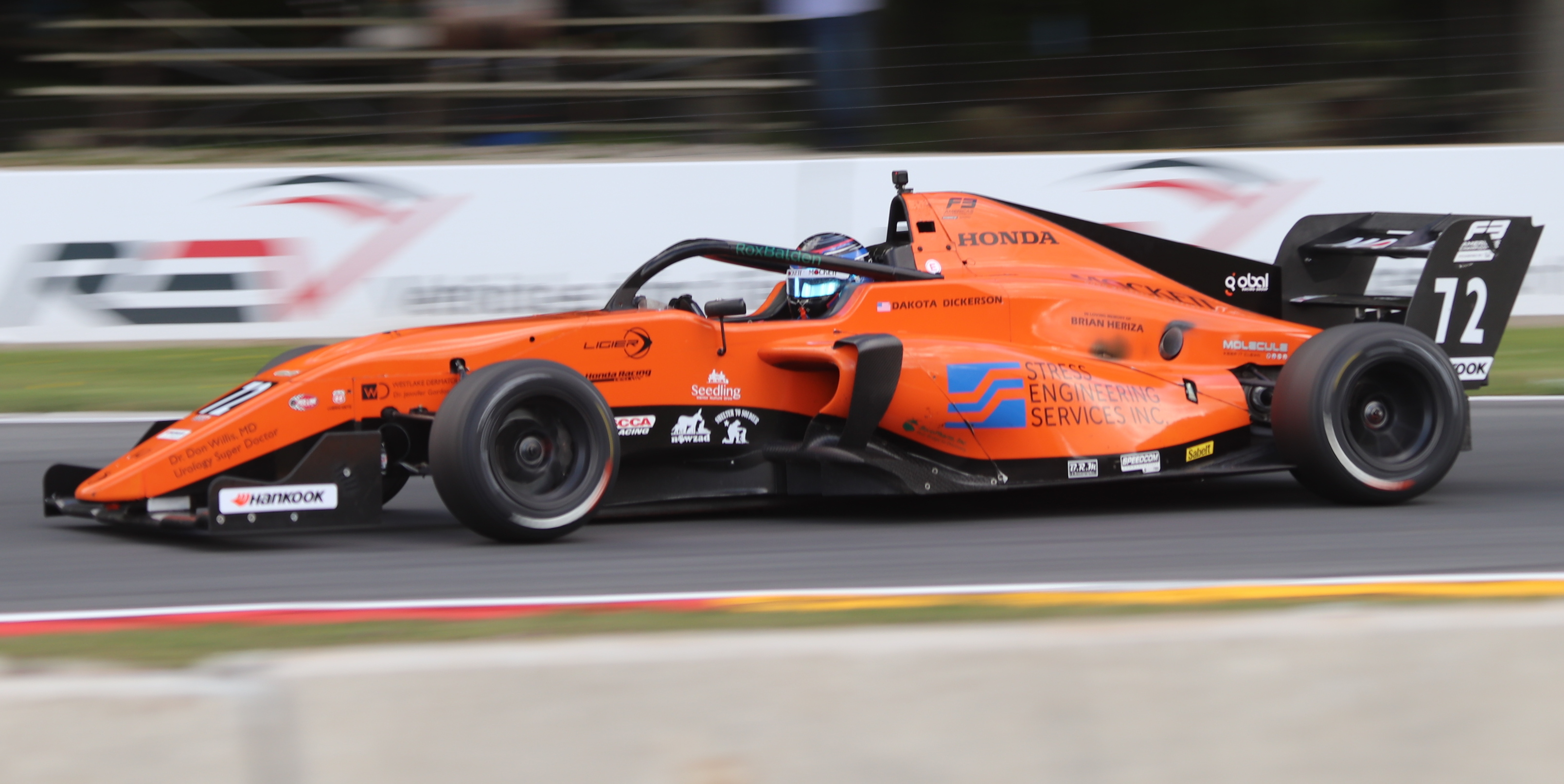 The F3 Americas Championship car of Dakota Dickerson at Road America. He clinched the series championship in the race.